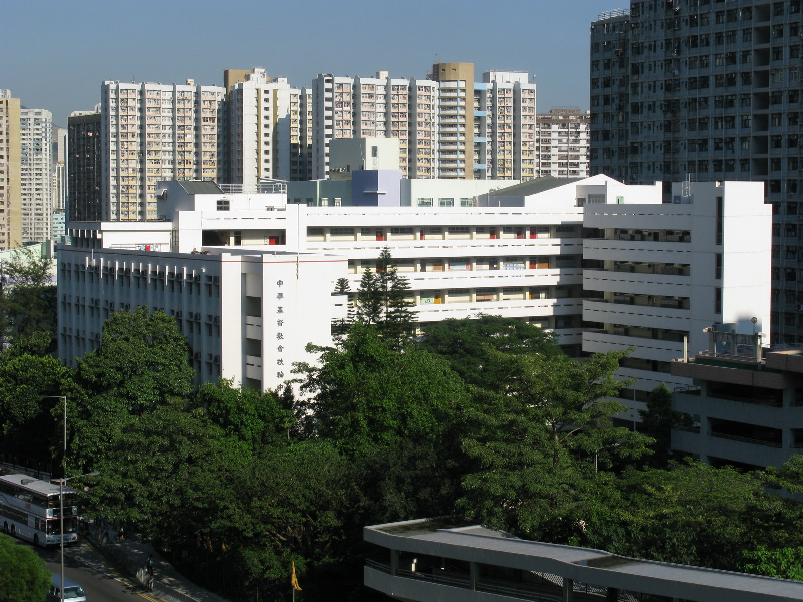 CCC Rotary Secondary School